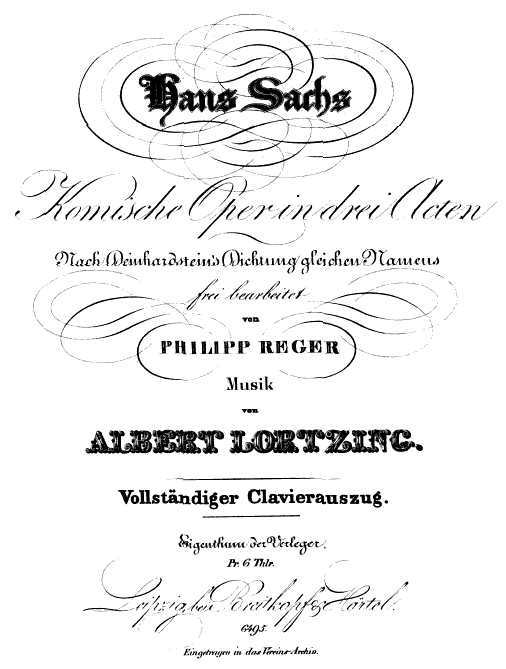 Albert Lortzing - Hans Sachs - title page of the piano score - Leipzig 1841